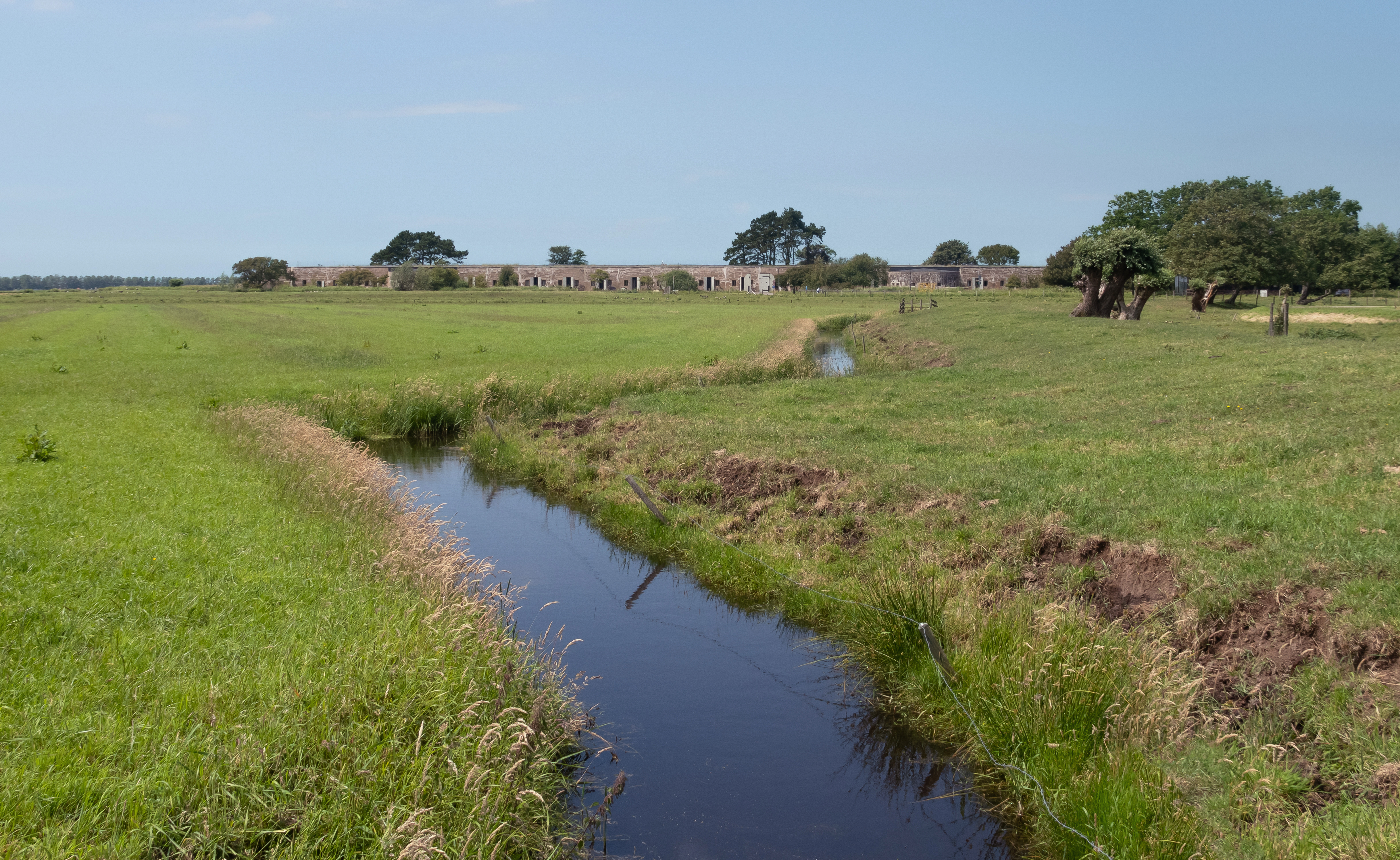 Krommeniedijk, fortification: het fort bij Krommeniedijk